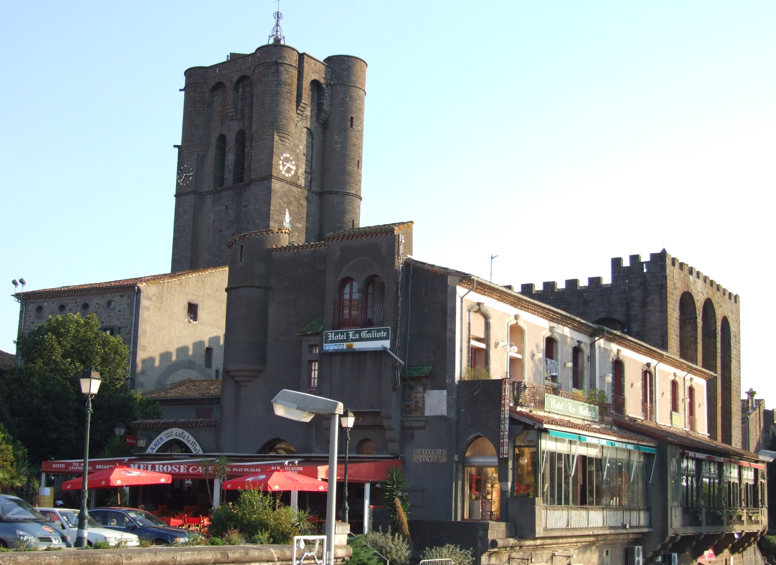 Agde, France